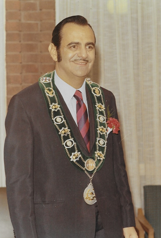 Inauguration of Mayor Phil White. Family Photo